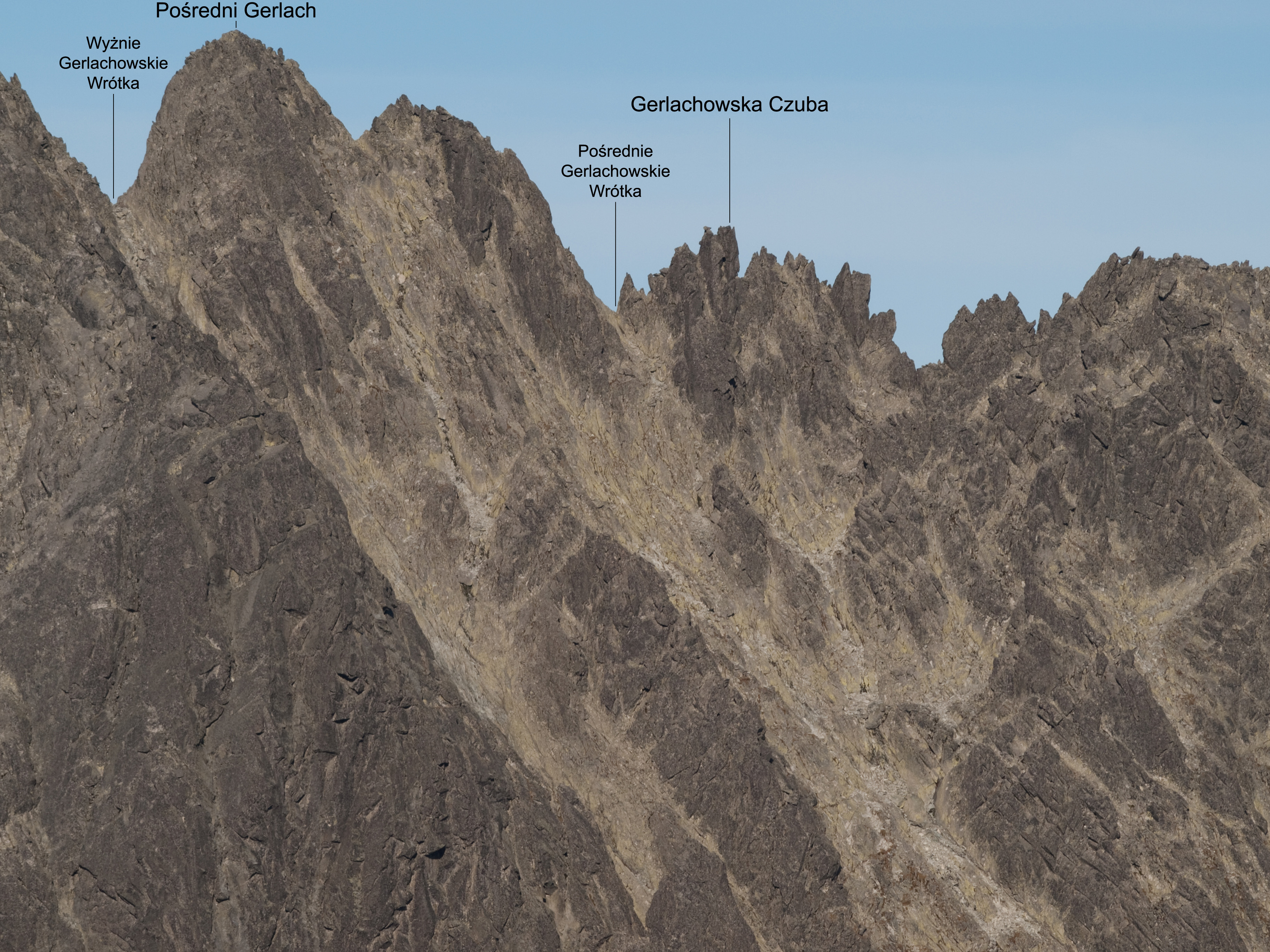 A part of the south-eastern ridge of Gerlachovský štít (Polish captions).